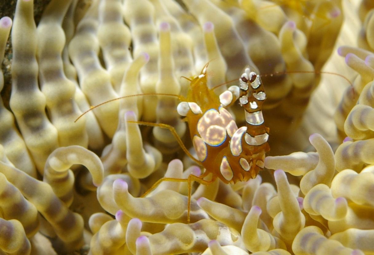 Thor amboinensis, cropped from original image